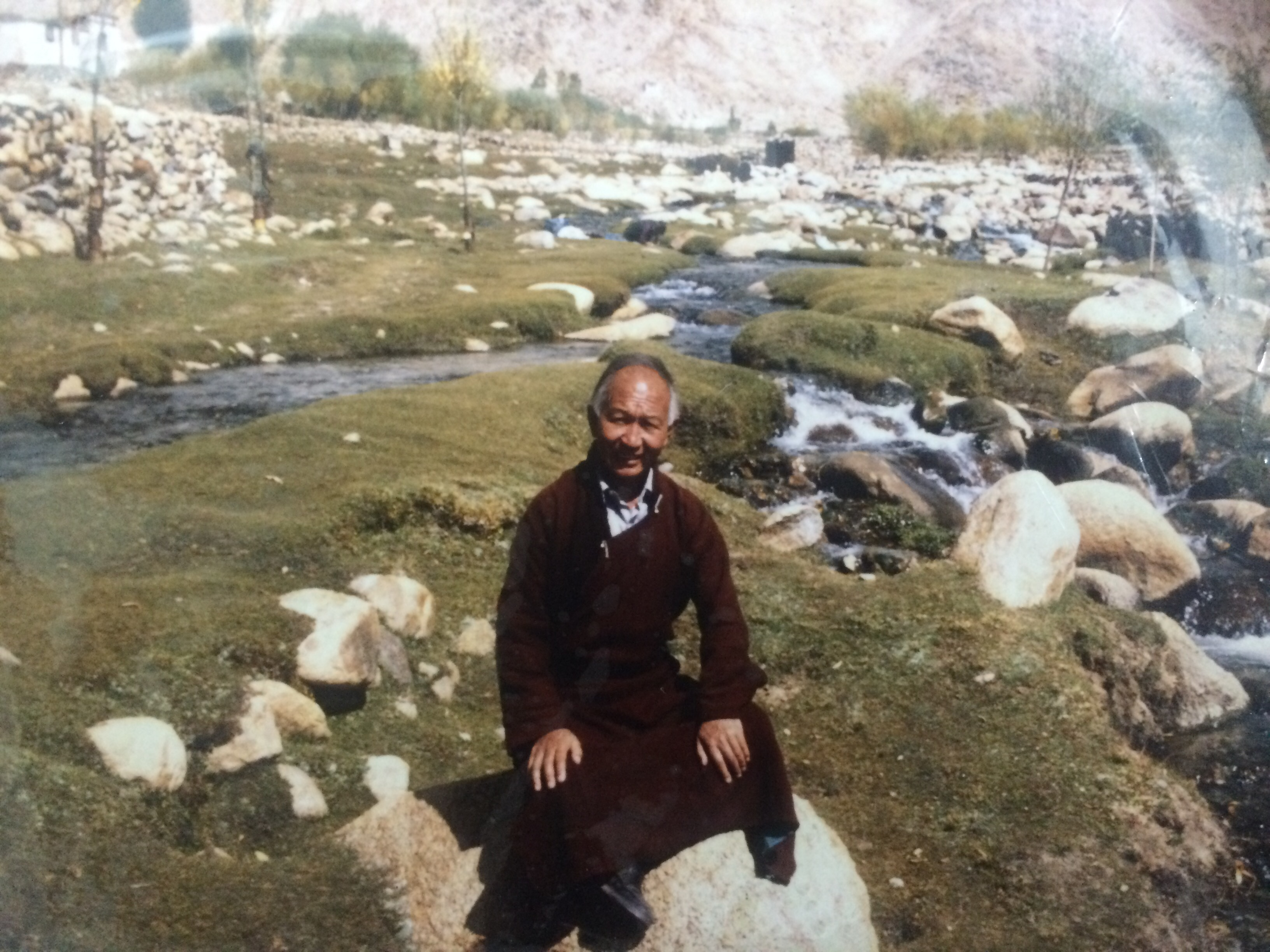 Picture taken around 1990s at Sakti.